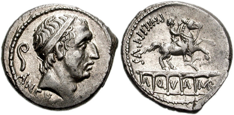 L. Marcius Philippus. (consul suffectus 38 BC - stepfather of Augustus) 56 BC. N.B. CNG assign this coin to Lucius Marcius Philippus. Crawford, says that the moneyer is perhaps Lucius (consul 38 BC), but may also be Quintus which was praetor 48 BC. (Crawford RRC, p. 448); he consider the 1st hypothesis more probable. AR Denarius (18mm, 4.04 g). ANCVS Diademed head of Ancus Marcius right; lituus behind PHILIPPVS Equestrian statue right on aqueduct of five arches; AQVA MAR (MAR in ligature) in arches. Crawford 425/1; Sydenham 919; Marcia 28. EF, underlying luster, minimal areas of flat strike.